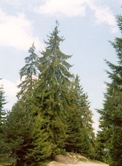 Picea abies in Kara Dere